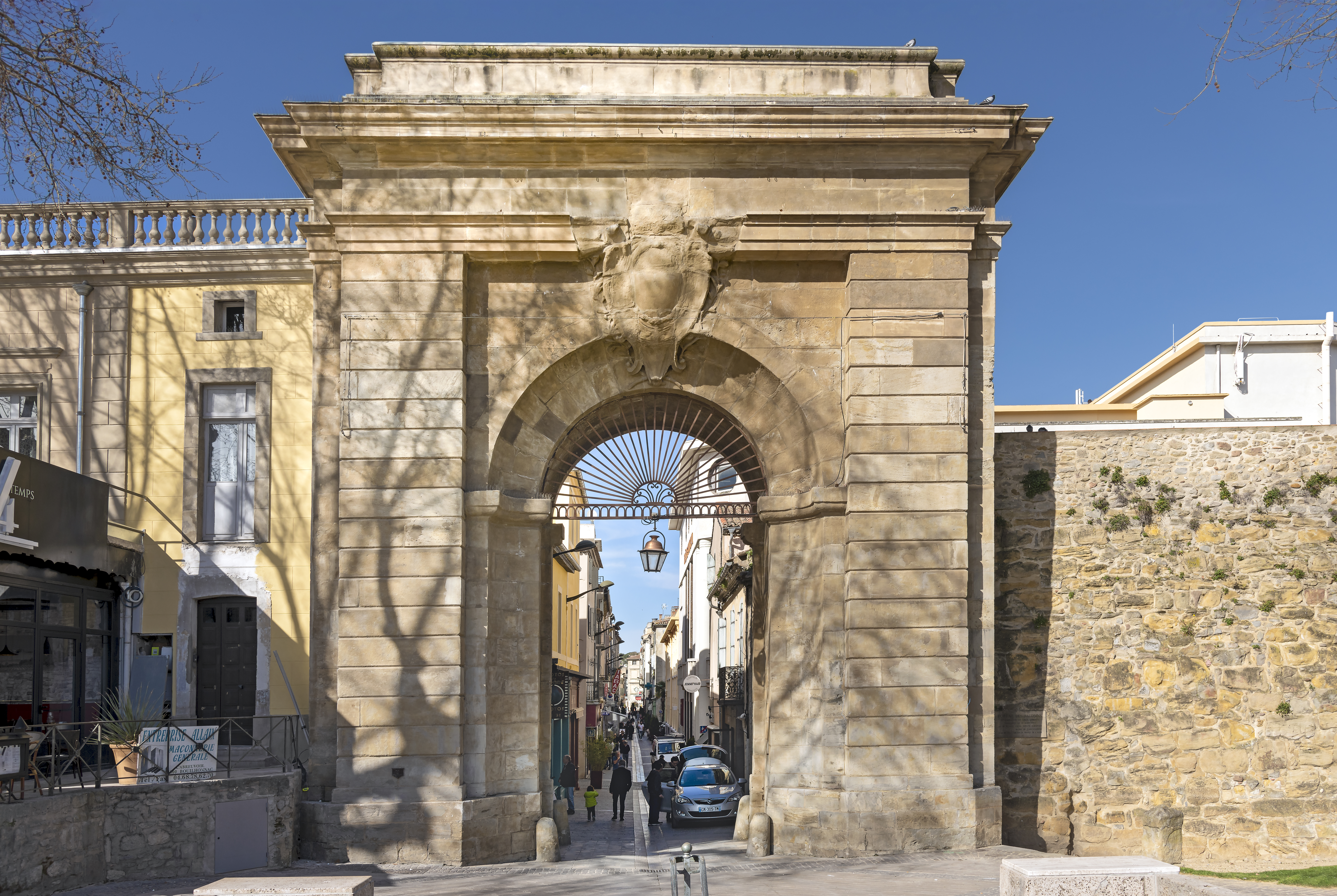 The Gate of the Jacobins (1779), seen from the Place de General de Gaulle